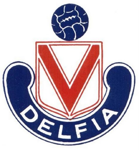 Delfia logo